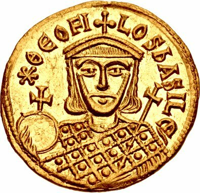 Solidus of Theophilus.